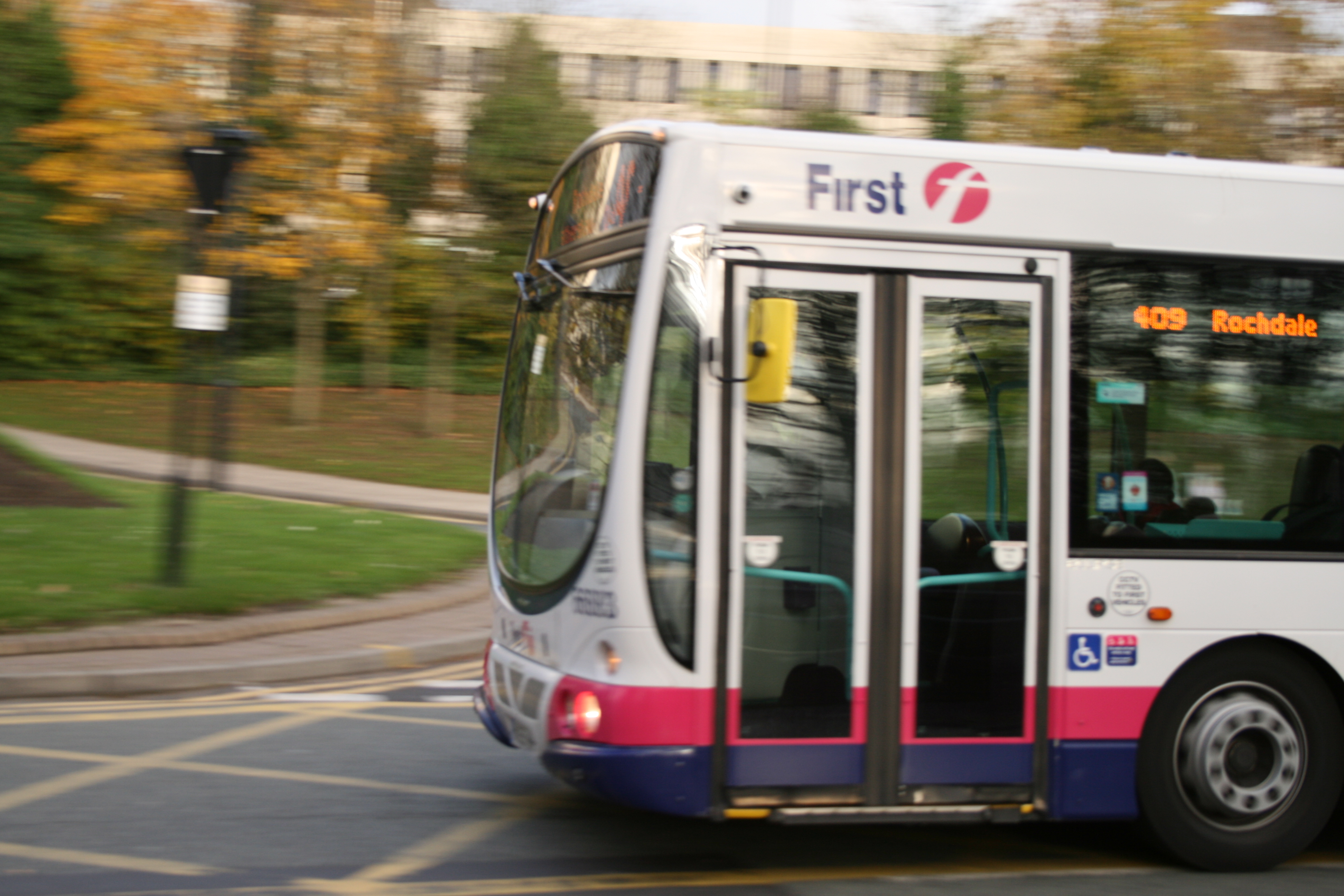 A first manchester bus, King street, Oldham. I don't think there's a single part of this picture thats actually in focus, but I like it all the same. I can't explain why.